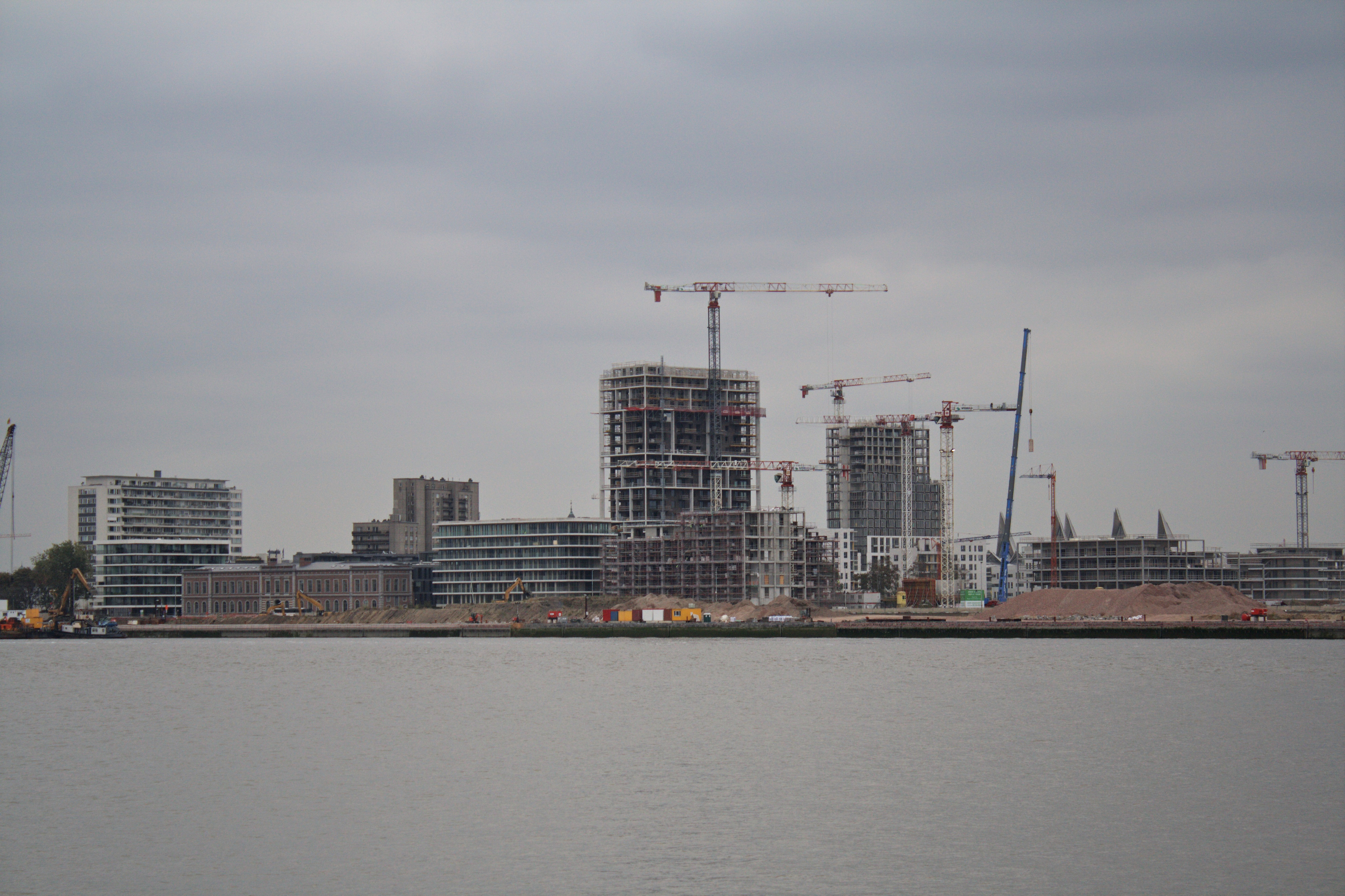 The 'Nieuw-Zuid' (New South) district in Antwerp under construction, October 2018.